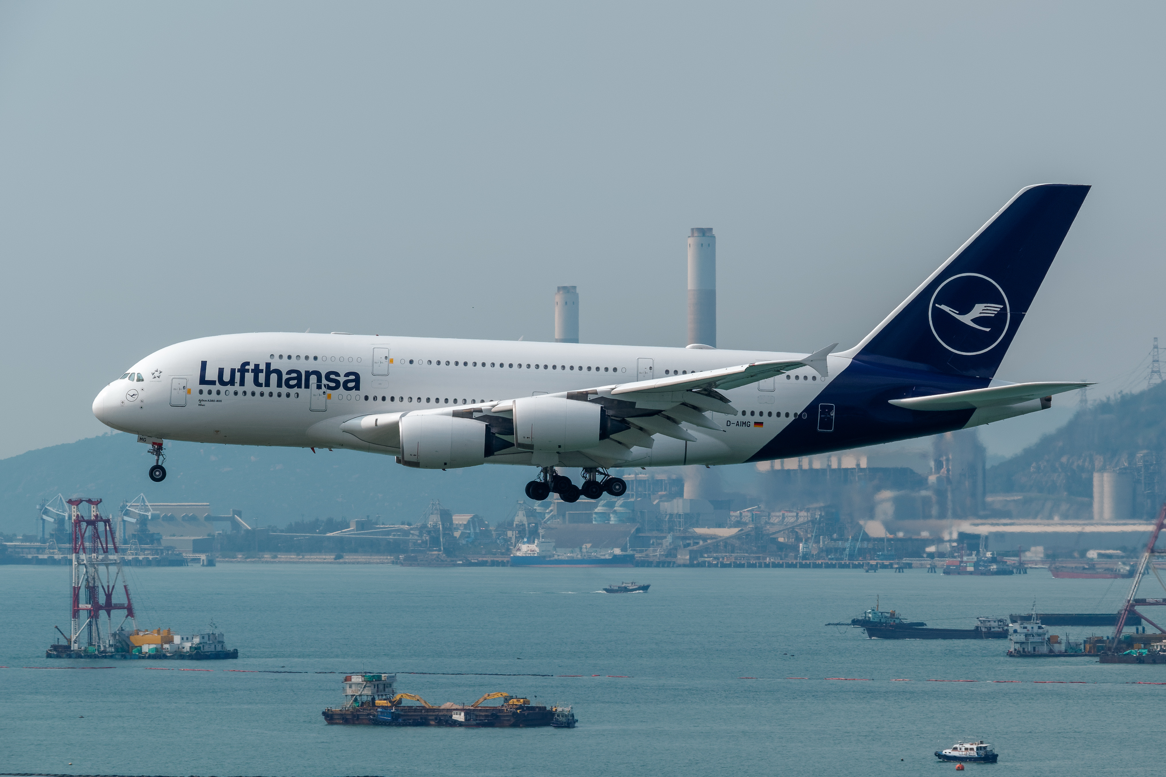 Lufthansa Airbus A380-800 D-AIMG